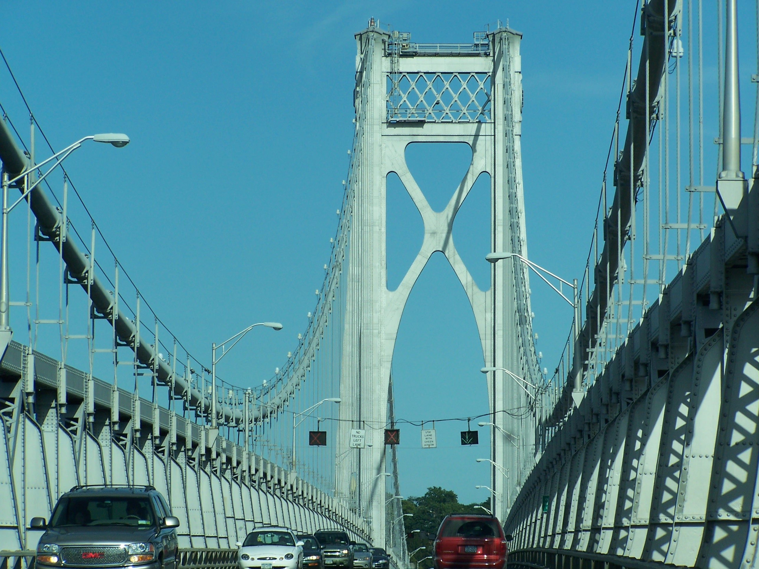 The eastbound Mid-Hudson Bridge in August, 2006. Crispy1995